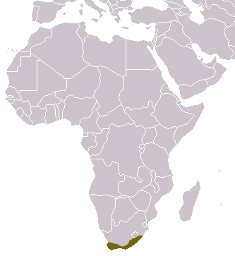 Cape Genet (Genetta tigrina) range in South Africa. Range in the rest of Africa not shown.